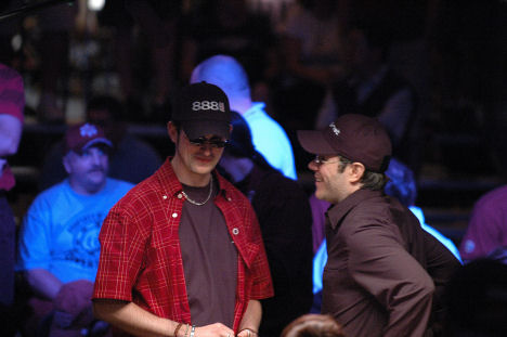 Jamie Gold (r) and Paul Wasicka wait for 2006 WSOP Main Event final table heads-up play to begin.